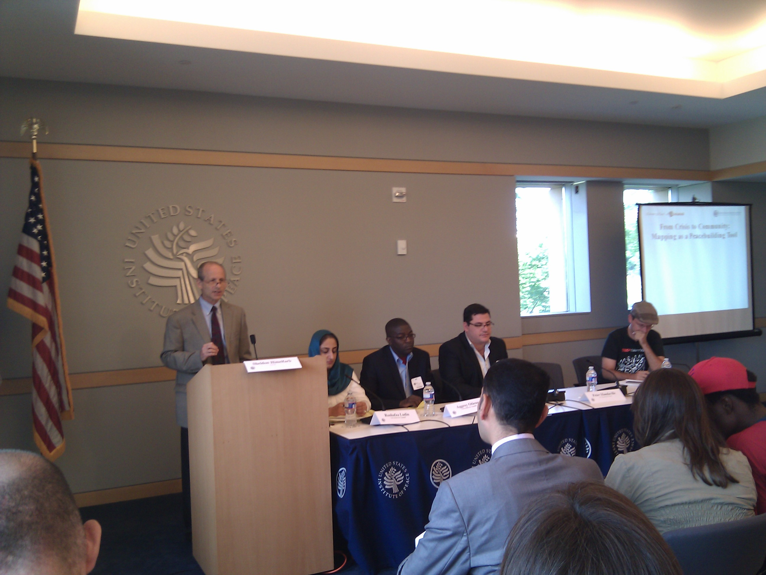 U4u conference